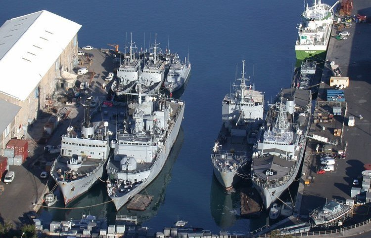 The French Navy has a flottilla based in Réunion, comprising (from left to right on the photo): (front row) the southern patrol ship Albatros (P681), the frigate Floréal (F730), the light landing ship La Grandière (L9034) and the light repair ship Garonne (A617); (second row) P400-class patrol vessels La Rieuse (P690) and La Boudeuse (P683), the Gendarmerie Navale coastal patrol boat Jonquille (P721), and the naval oiler CIGH22; (out of water) the coastal patrol motor launch Vétiver (P790).